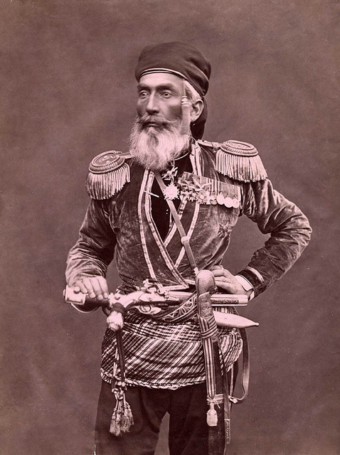 Prince David Gugunava (1815—1885), a Georgian military officer, politician and folk singer